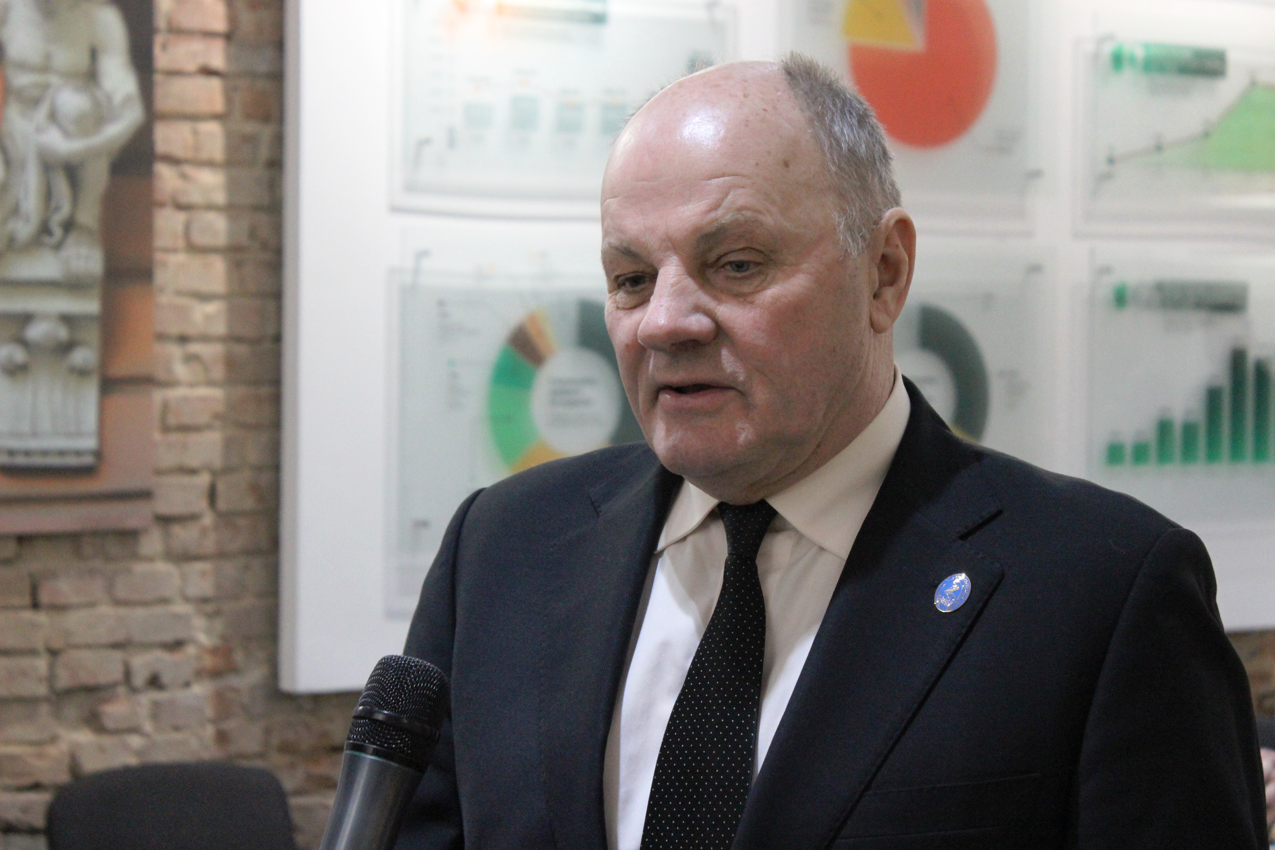 Reient Oleksandr, Doctor of Historical Sciences (Dr. hab. in History), Professor, Corresponding Member of the NAS of Ukraine